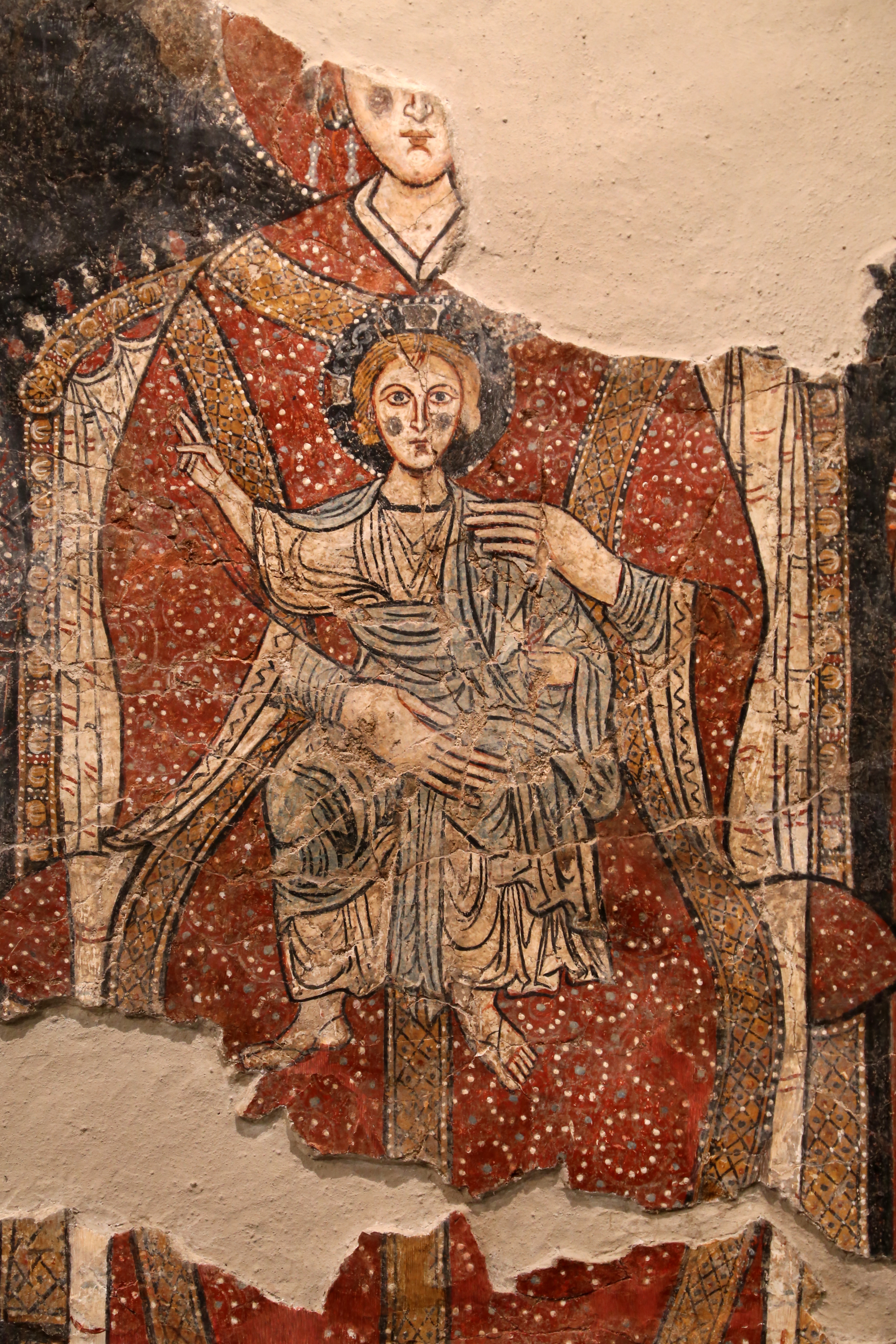 Paintings in the Museo nazionale d'Abruzzo